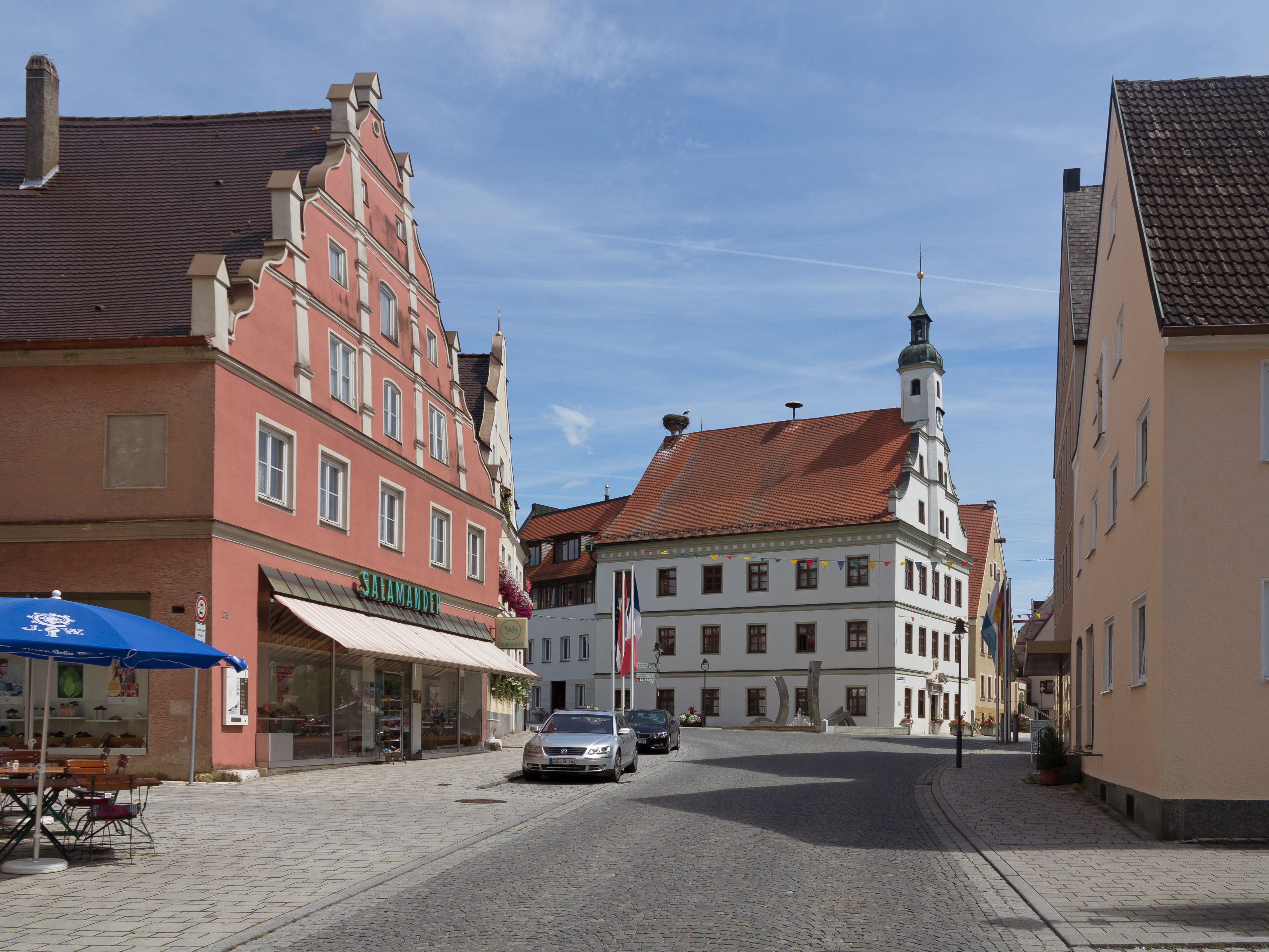 Gundelfingen an der Donau, monumental building (das Bürgerhaus) and the townhallThis is a photograph of an architectural monument.